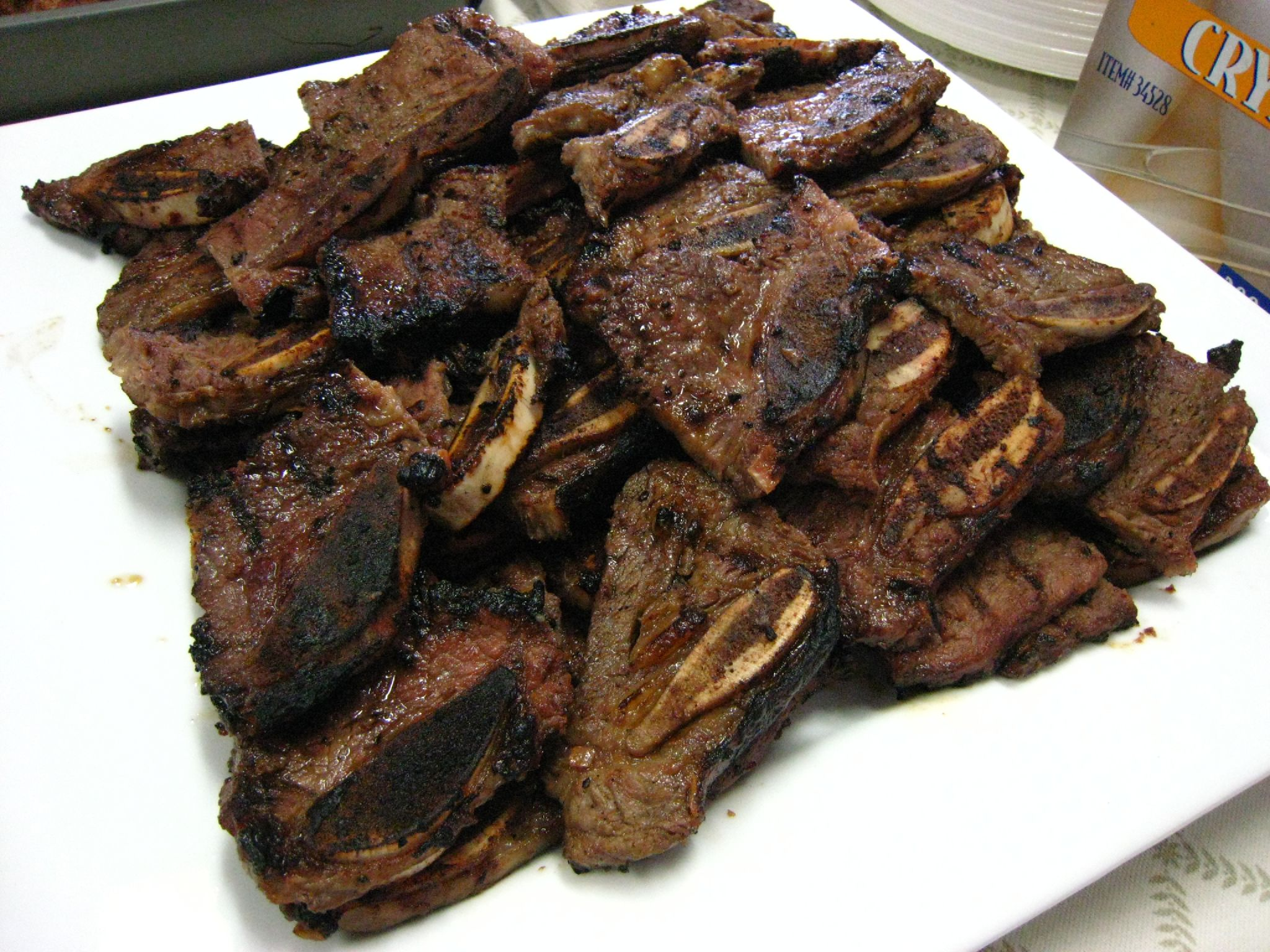 a dish of grilled Galbi